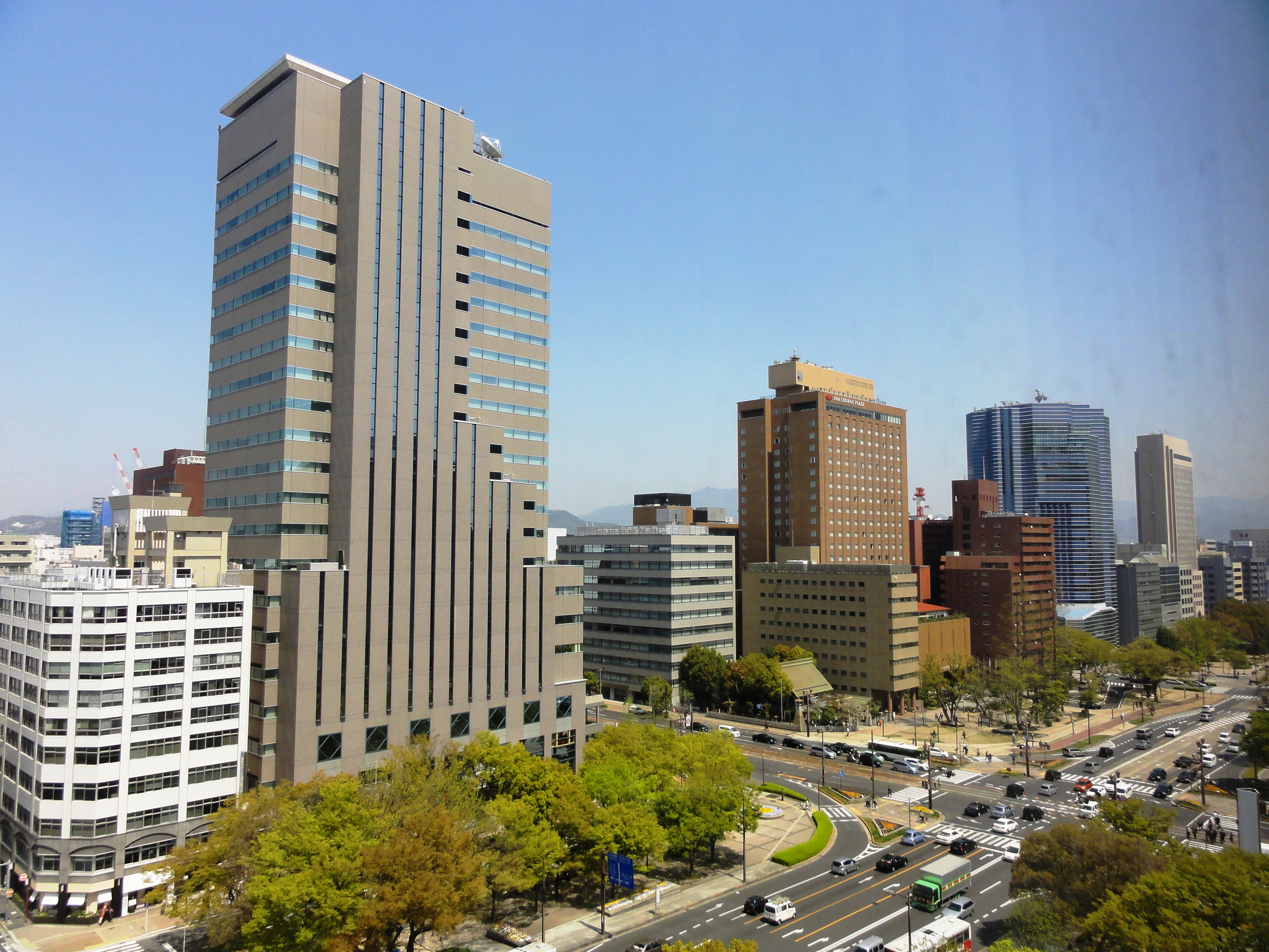 Hiroshima City